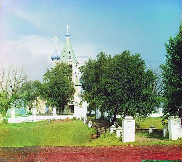 Nativity of the Theotokos Church in Gorodnya, Tverskaya province, Russia. Fotography taken by M.S. Prokudin-Gorskiy, early 20 century.